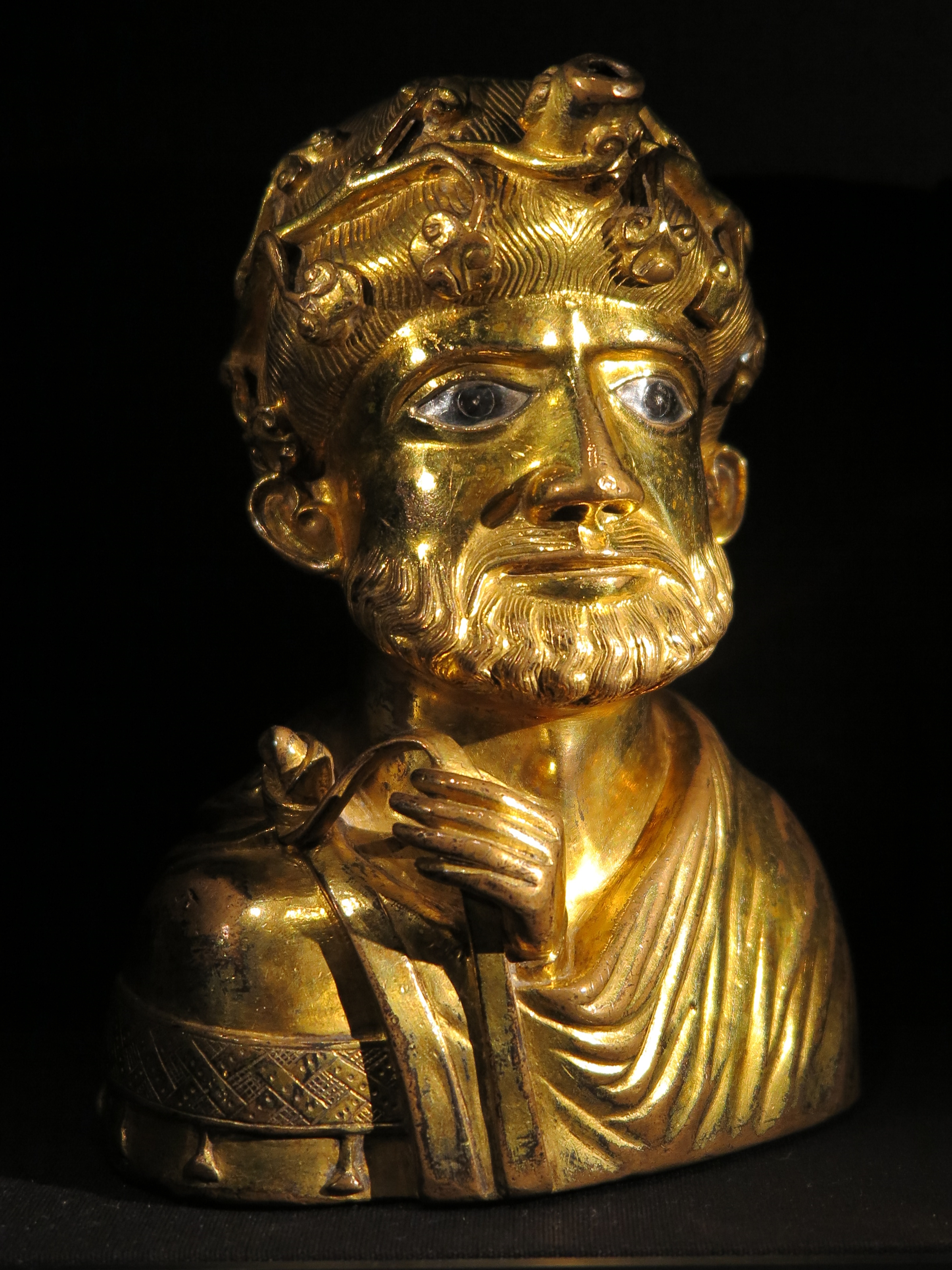 Aquamanile in the shape of a bust. The liturgical vessel was used to the hand ablution during the holy mass.